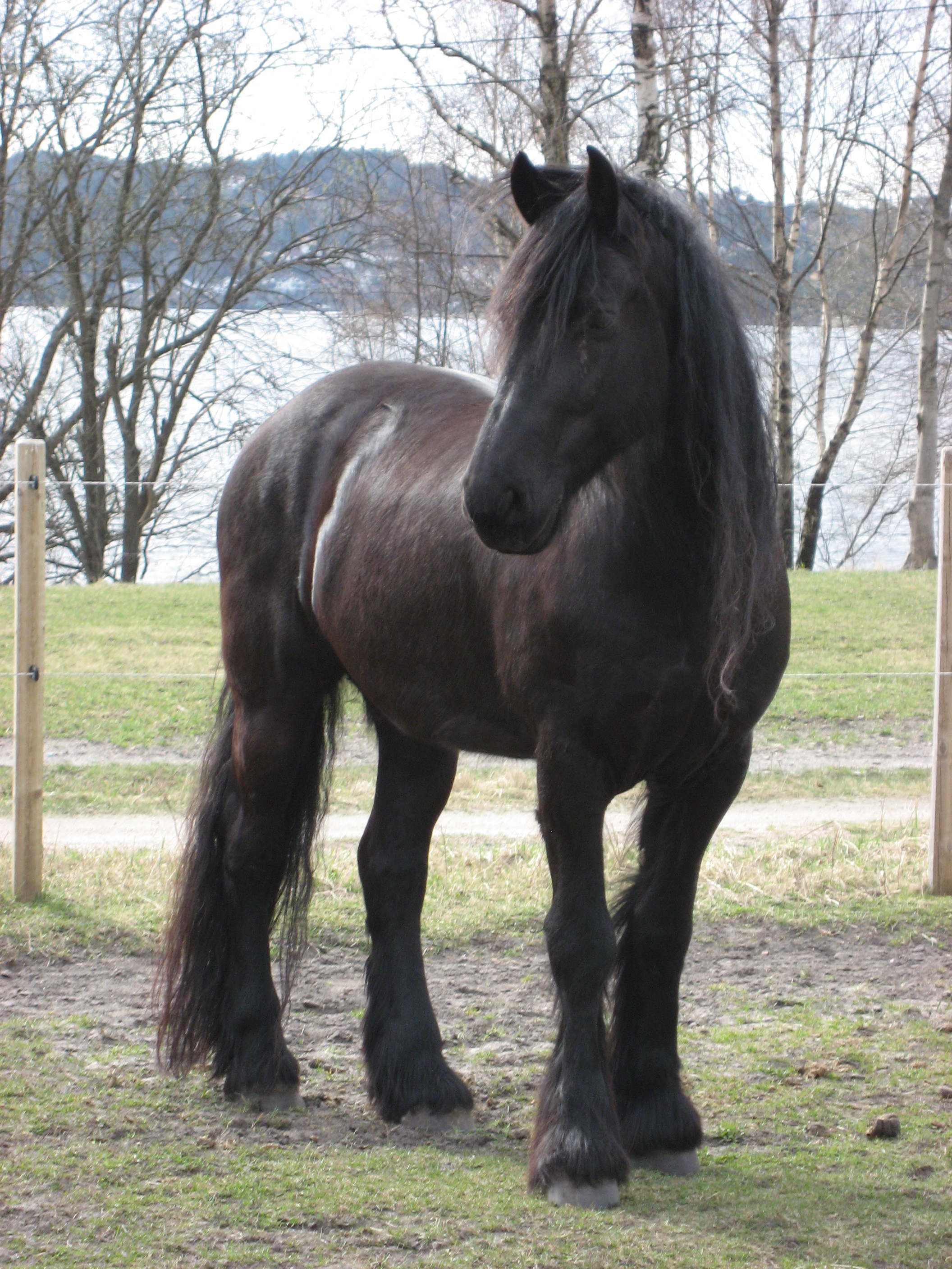 Frisian Horse